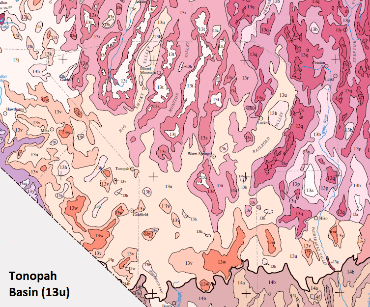 Map of ecoregions of central Nevada. For legend, see below.